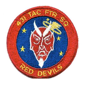 Emblem of the USAF 431st Fighter-Interceptor Squadron